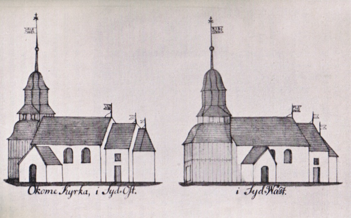 The old church of Okome parish, Sweden